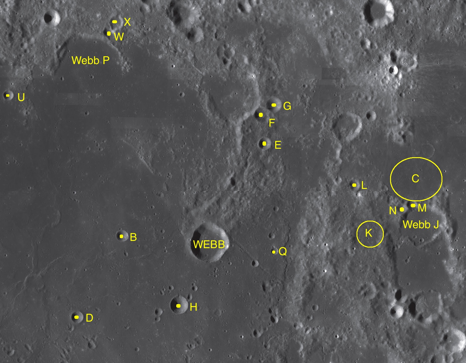 Parts of the charts LAC-62, LAC-80 used for the presentation.